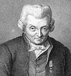 André Morellet - french economist and philosopher